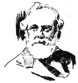 This portrait of James Rich Steers accompanied his 1896 obituary in the New-York Daily Tribune newspaper.